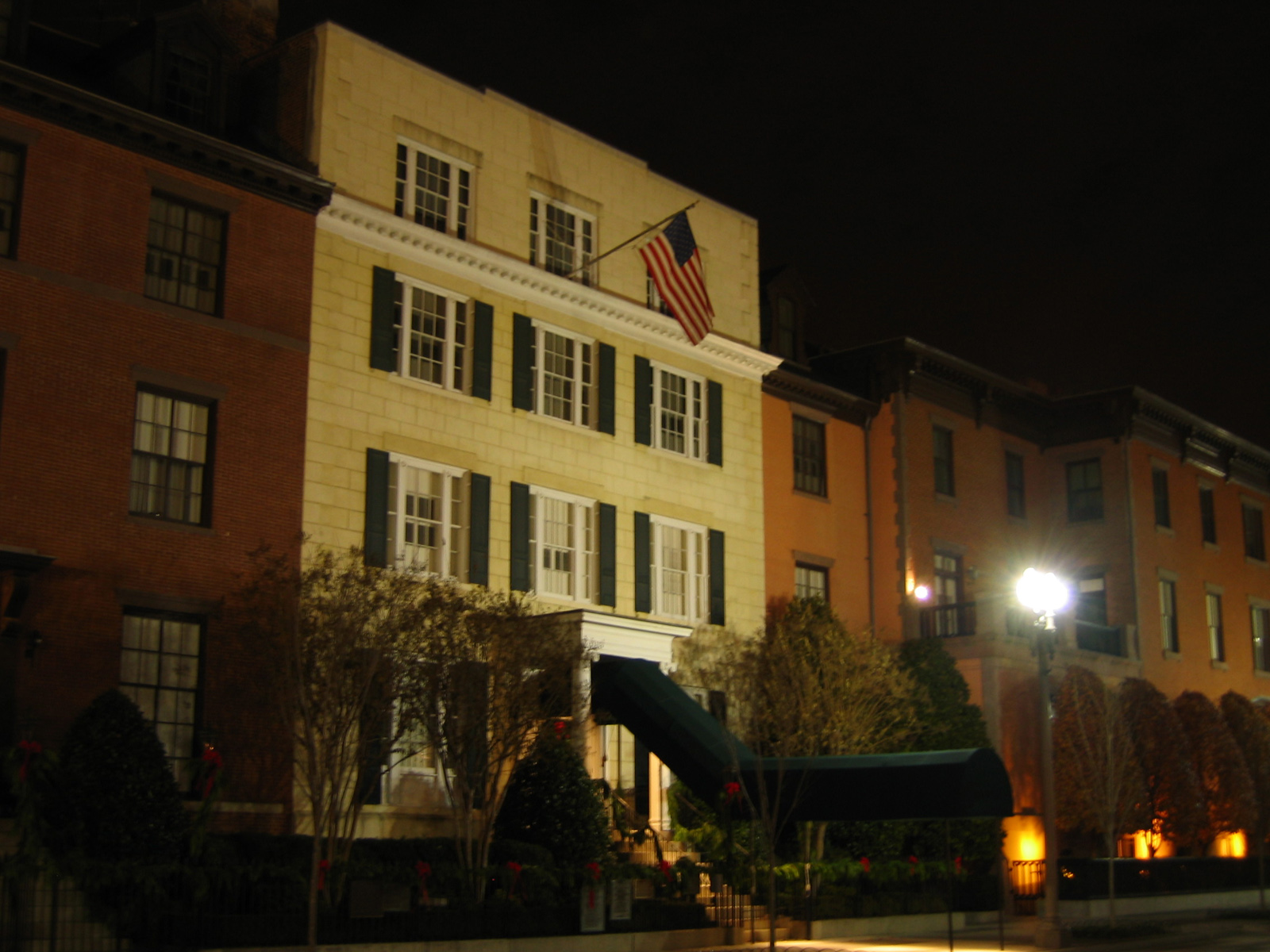 Blair House, adjacent to Lafayette Park, serves as a guest house for State Visitors to Washington, D.C.